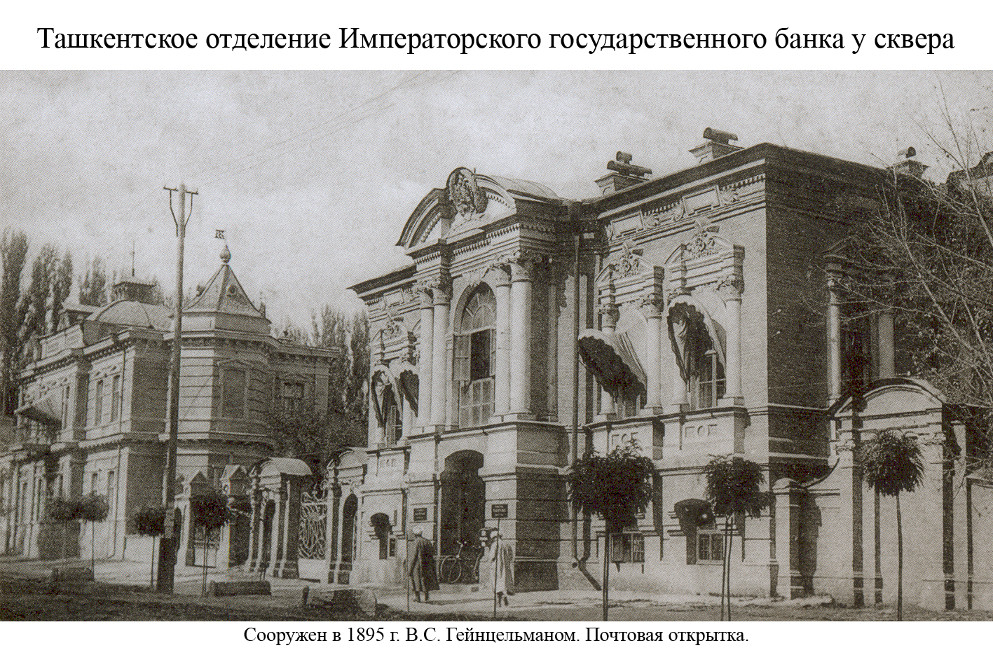 Tashkent office of the Imperial State Bank at the park. Constructed in 1895 B.C. Geyntselmanom. Postcard publishers.